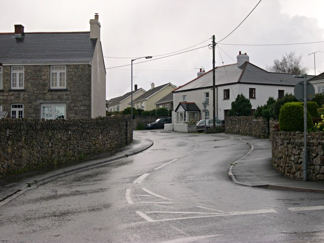 Phernyssick Road, Boscoppa Part of the eastern side of St Austell.